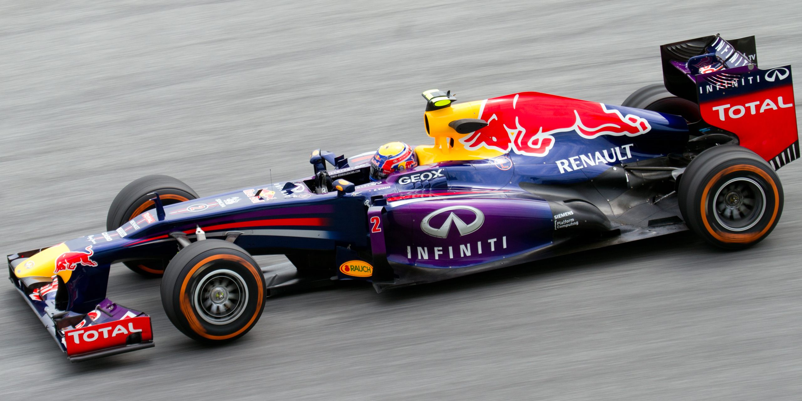 Formula One 2013 Rd.2 Malaysian GP: Mark Webber (Red Bull) during the first practice session on Friday.